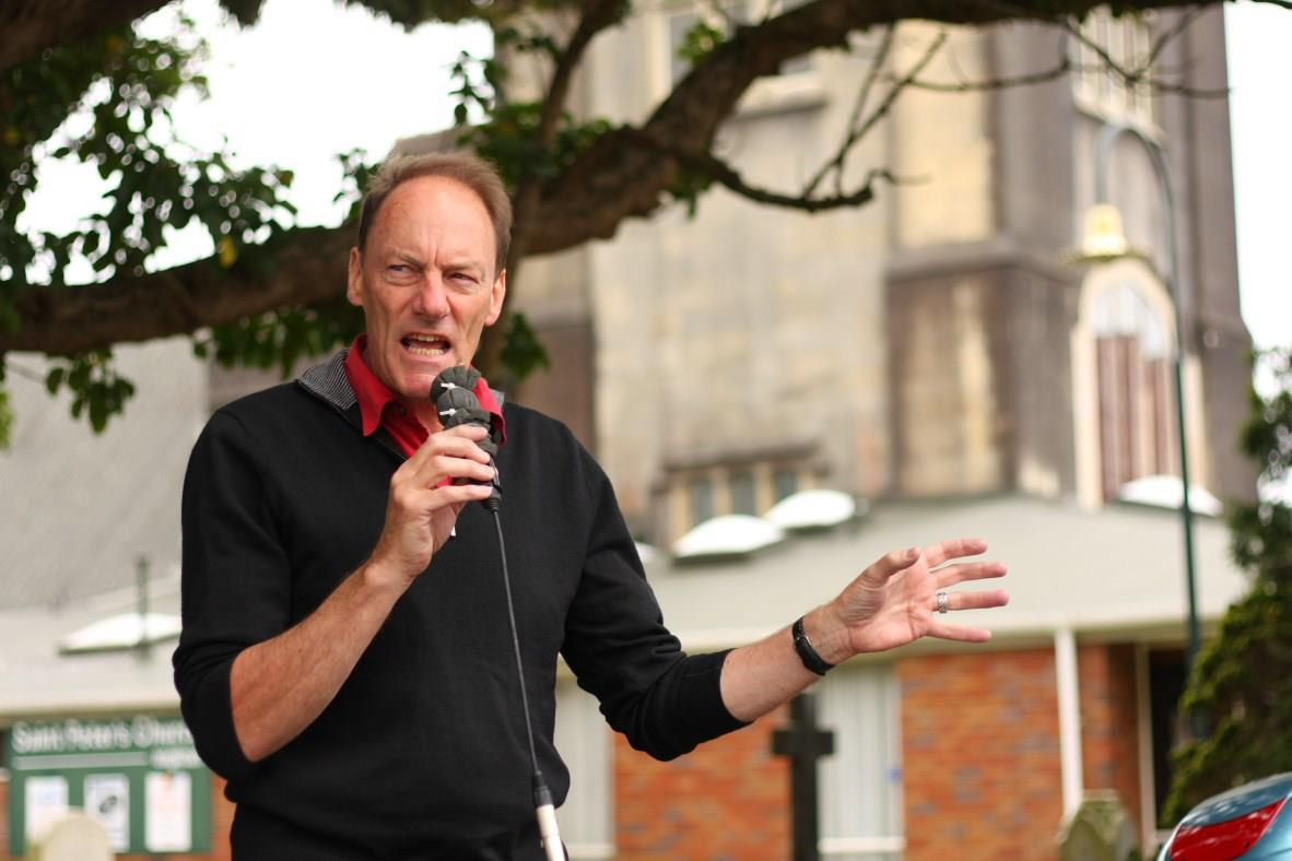 John Minto speaks at Auckland Action Against Poverty beneficiary impact in Onehunga